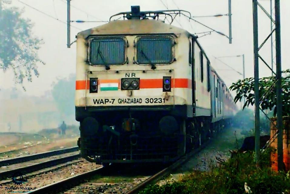 12230 Lucknow Mail behind WAP7